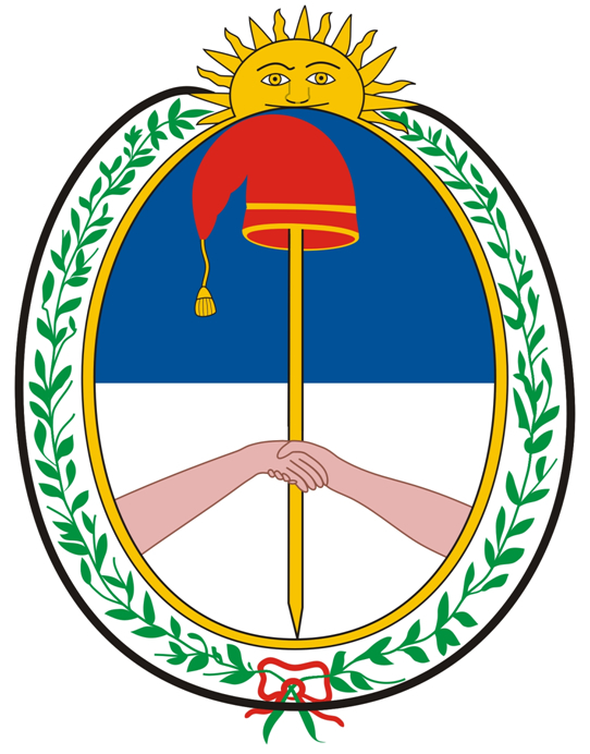 Flag of Jujuy Province. This flag, created by Manuel Belgrano under the name "Bandera Nacional de Nuestra Libertad Civil (National flag of our Civil Freedom)" was donated by him to the Cabildo of Jujuy Province.